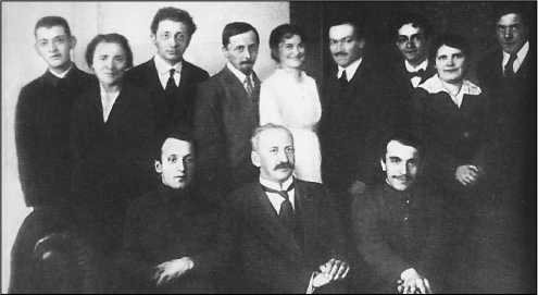 Seminar of Abram Ioffe in Polytechnical Institute, 1916